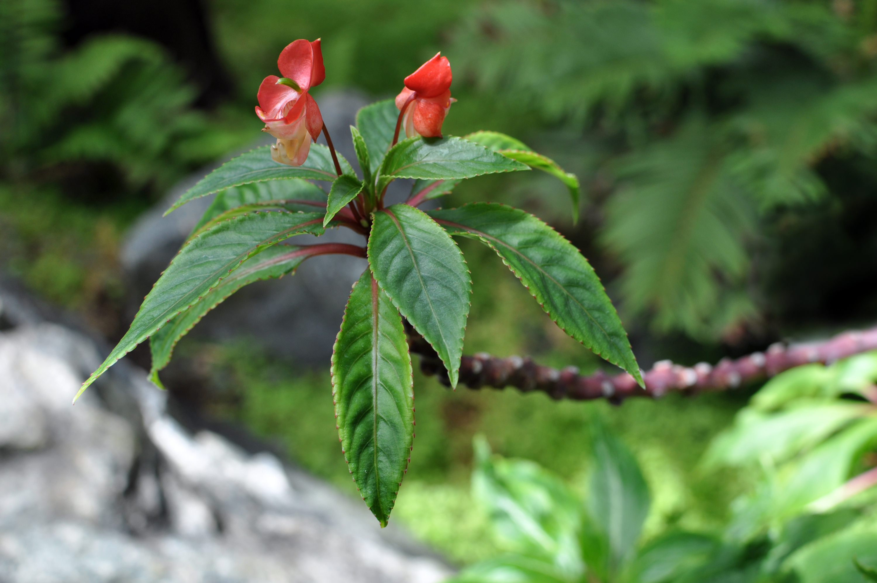 Impatiens bicaudata Conservatoire botanique national de Brest Native nameConservatoire botanique national de BrestLocationBrest, FranceCoordinates48° 24′ 10.35″ N, 4° 26′ 53.58″ W Established1975: established, 1978: opened to publicWeb page Authority control : Q2994486 VIAF: 135879850 ISNI: 0000 0000 9261 8684 LCCN: no95047958 WorldCat institution QS:P195,Q2994486